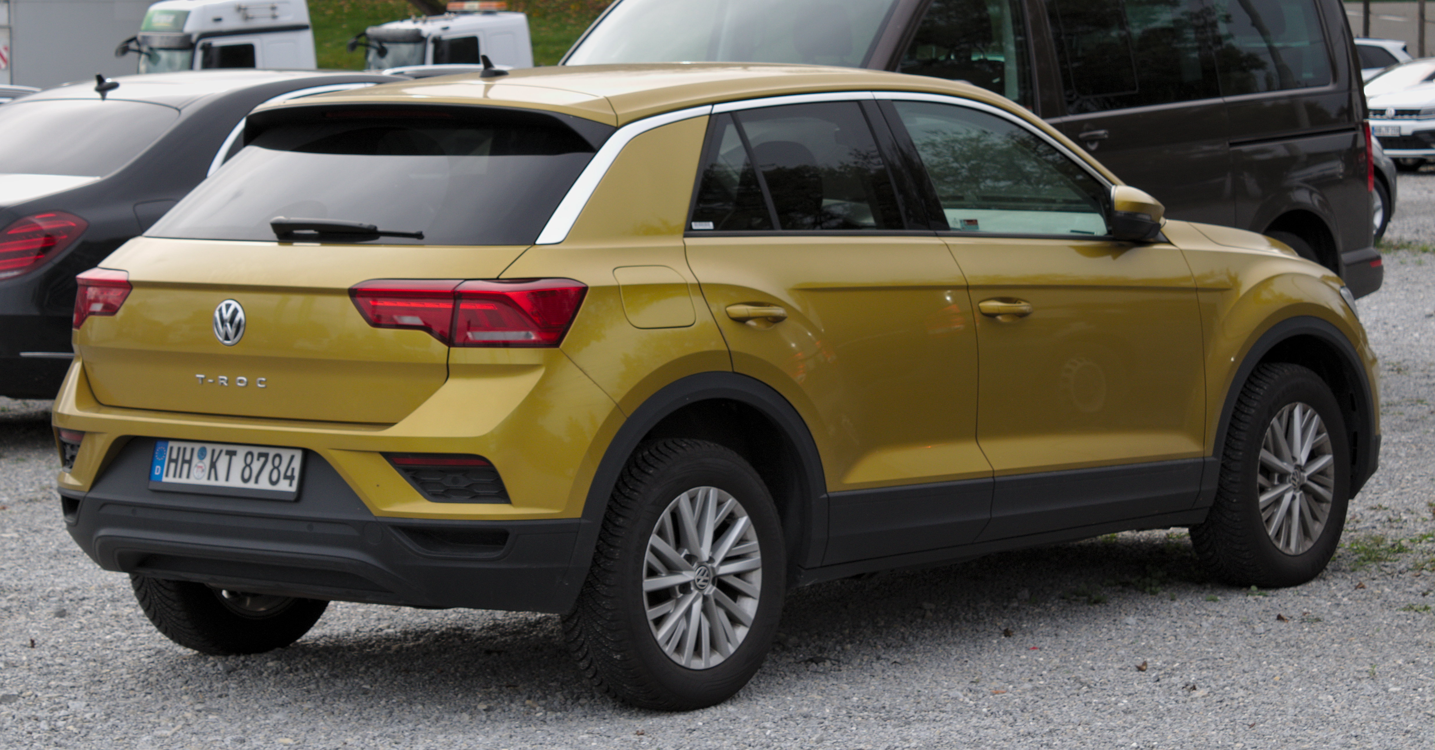 Volkswagen_T-Roc in Stuttgart-Vaihingen